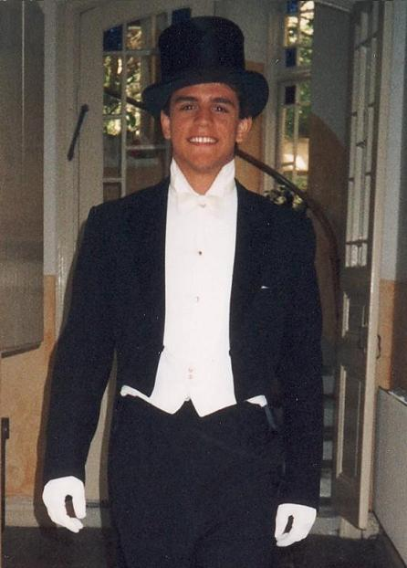 Swedish actor Patrik Hont, also a F.U.S.I.A. Board Director, as released by image creator F.U.S.I.A.Place: Hökens gata 3 A, Stockholm, Sweden